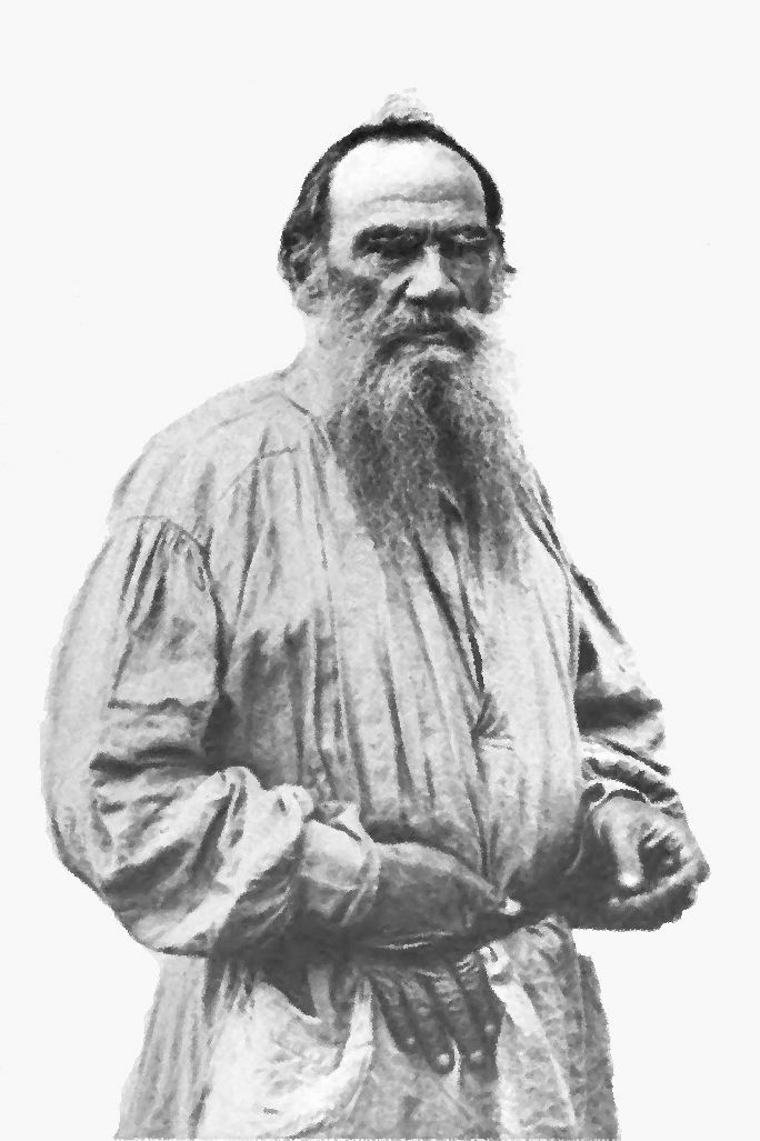 Photo of Lev Nikolayevich Tolstoy in 1892